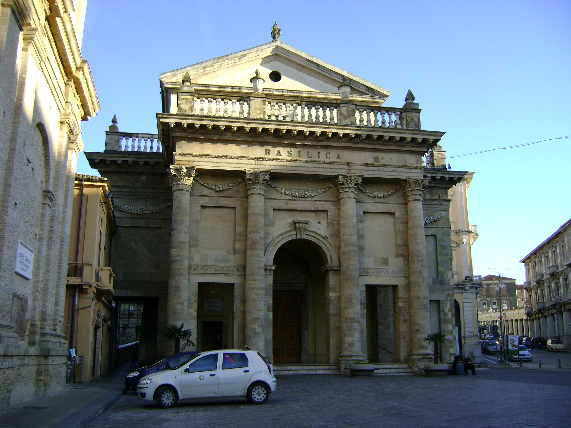 The Madonna del Ponte basilica, Lanciano, province of Chieti, Abruzzo